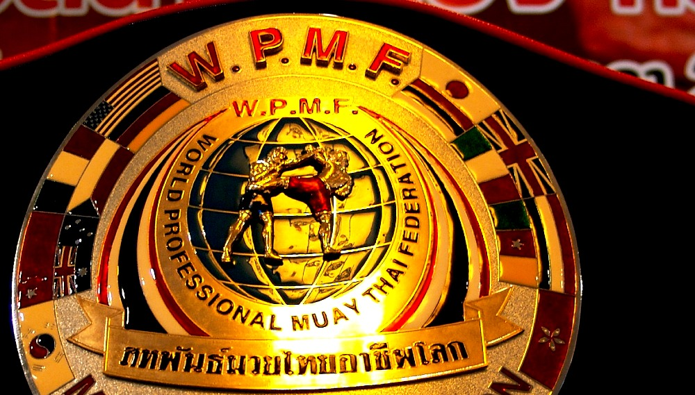 Champion belt of WPMF